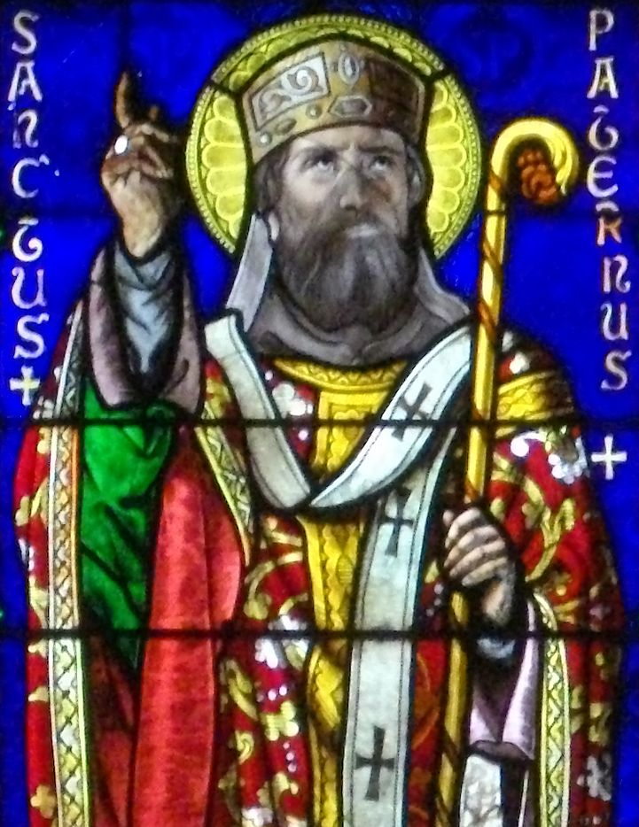 Detail from: this image. Saint Peter cathedral of Vannes (Morbihan, France) : 1878 stained glass window of Saint Padarn.